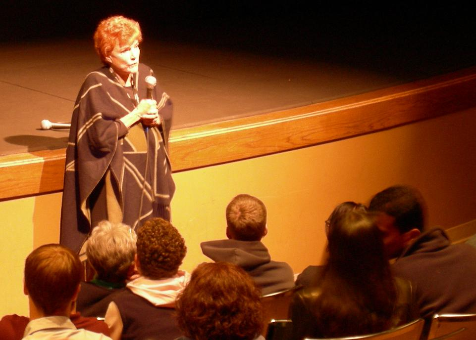 Actress/film producer/film director Pippa Scott at the Seattle International Film Festival, May 2006. Q&A session after a showing of the documentary King Leopold's Ghost.